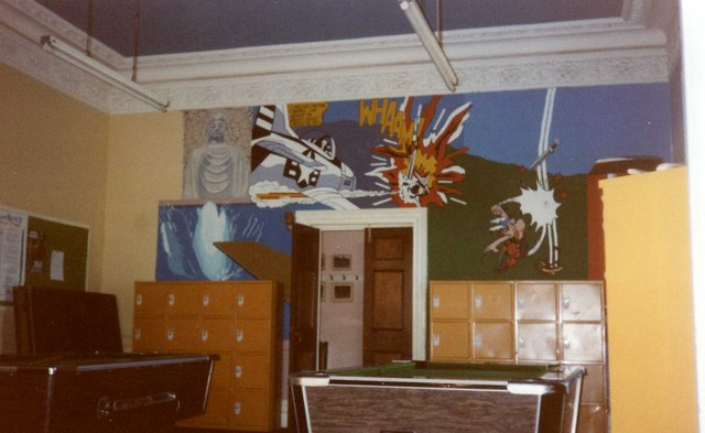 Kesgrave Hall School (Boys Common Room) This is how the common room looked in December 1987